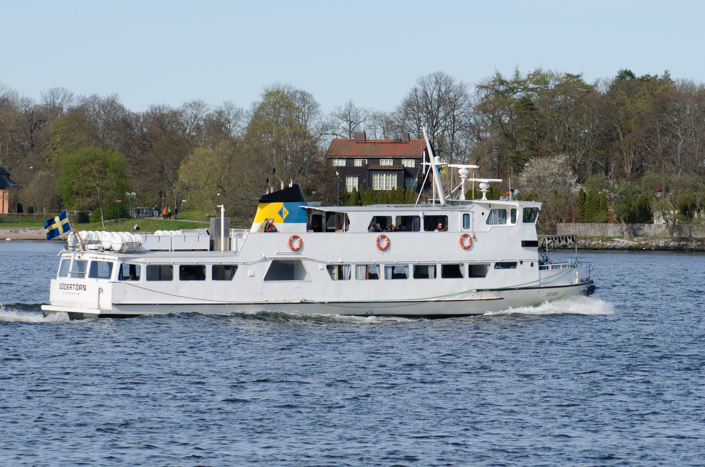 M/S Södertörn outside Blockhusudden (Djurgården, Stockholm).